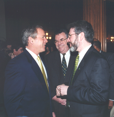 President George W. Bush, Congressman Peter King and Gerry Adams share a light moment after discussing the Irish Peace Process at the annual Speaker's St. Patrick's Day Lunch.